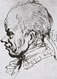 Drawing in-live of russian fieldmarshal A.V. Suvorov by Norblin. Norblin worked in Poland when Suvorov's troops storm Praga, district of Warsaw, and slaughter of polish inhabitants followed, so artist Norblin had quite certain feelings towards Suvorov.